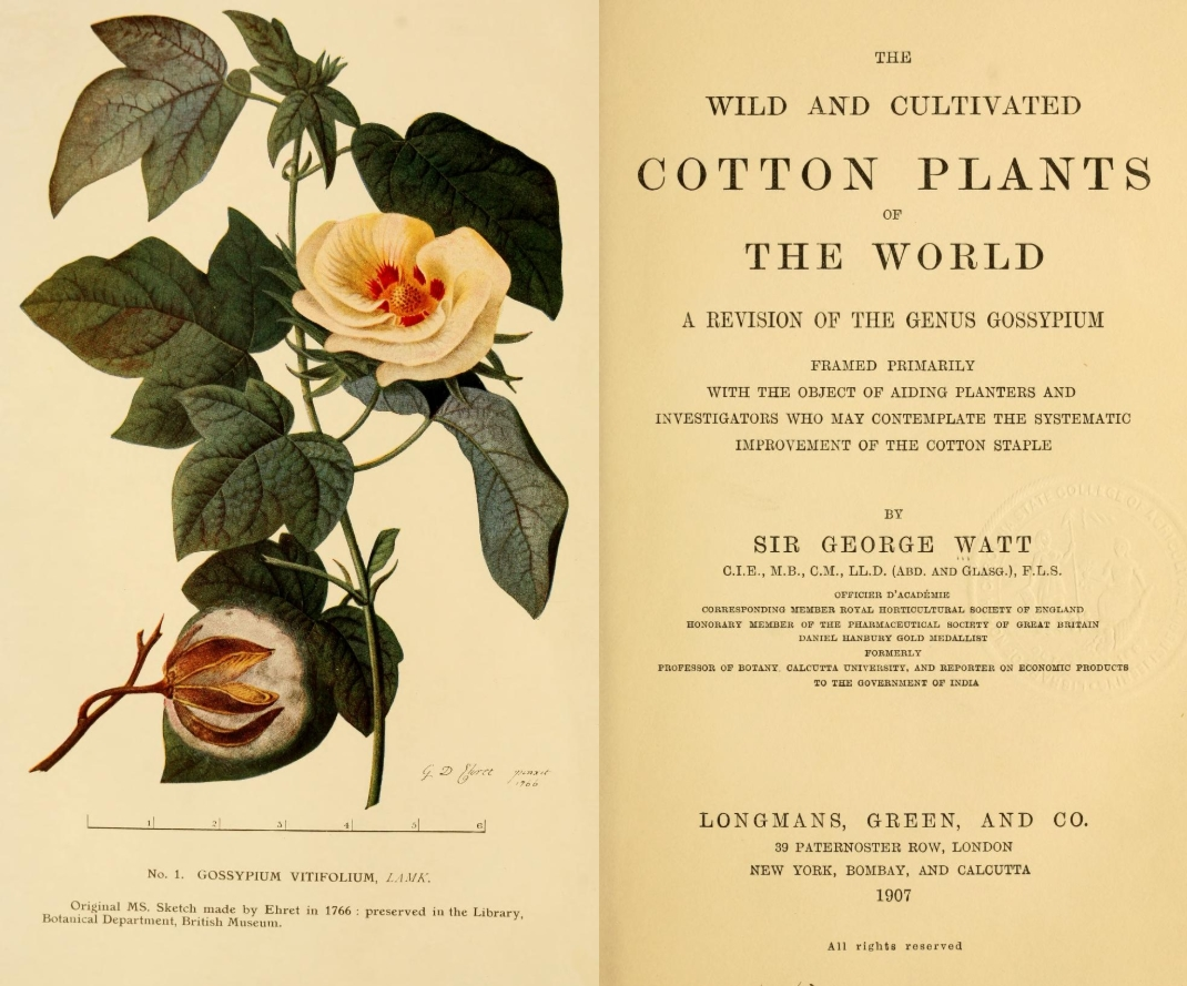 Frontispiece and title page of G. Watt, The wild and cultivated cotton plants of the world; a revision of the genus Gossypium